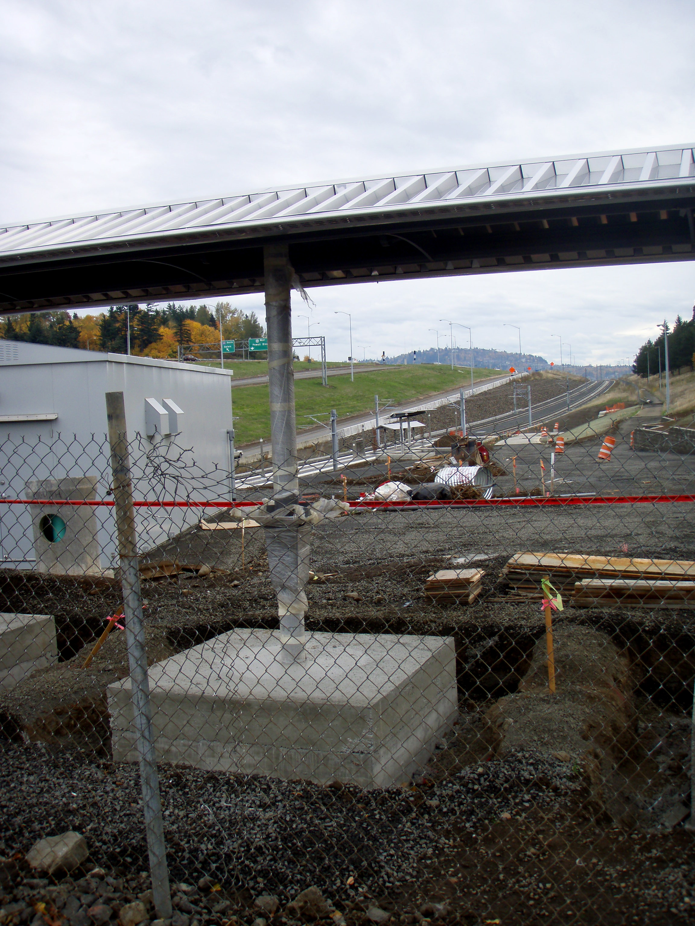 Construction of bus shelter and MAX station at Southeast Division St. and I-205 in Portland, Oregon